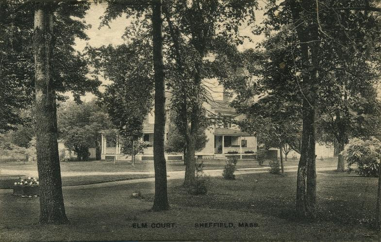 Elm Court, Sheffield, MA; from a 1920 postcard published by W. D. French.